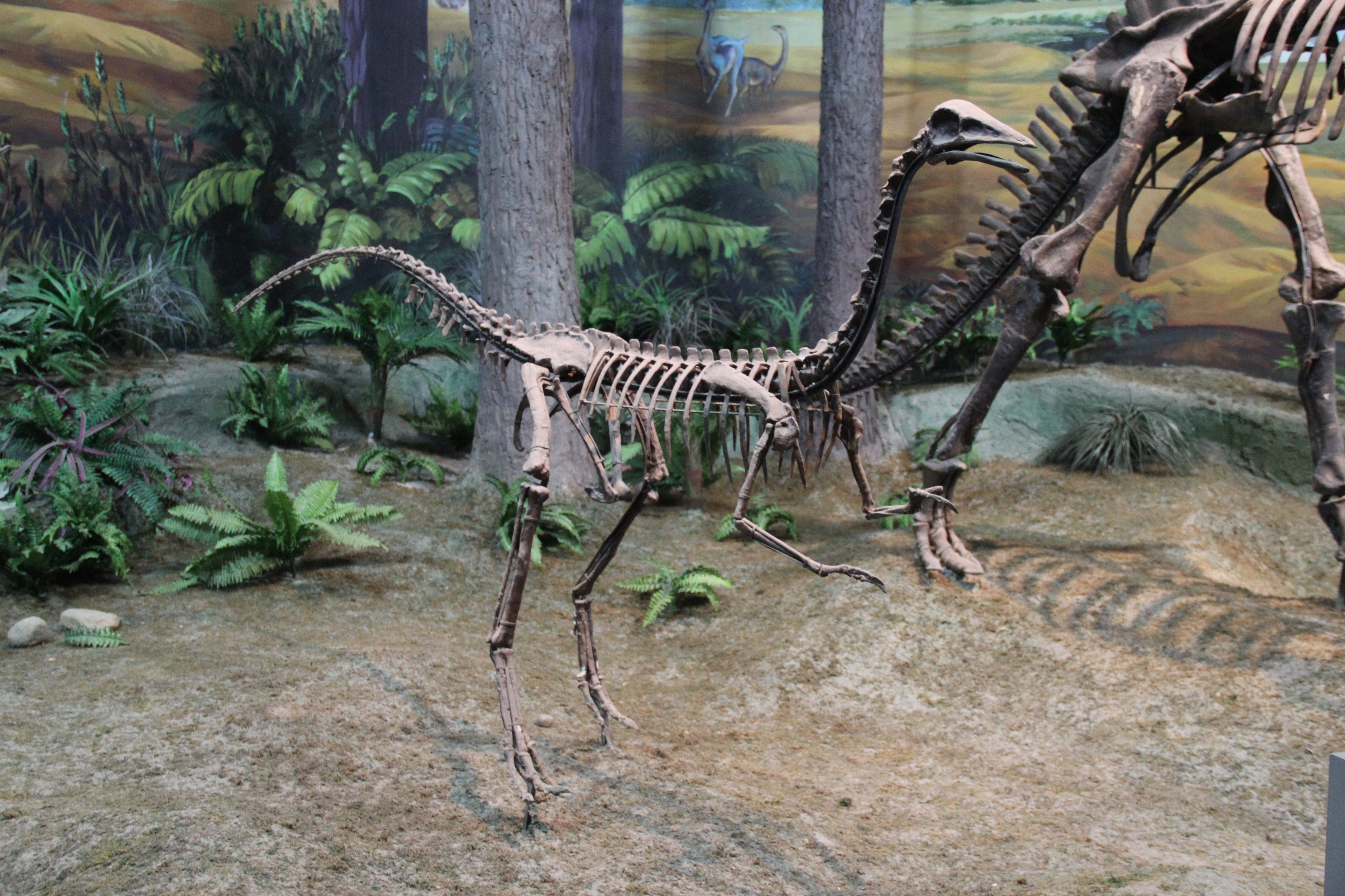 Prehistoric Gallery, Inner Mongolia Museum, Hohhot, China. Complete indexed photo collection at .